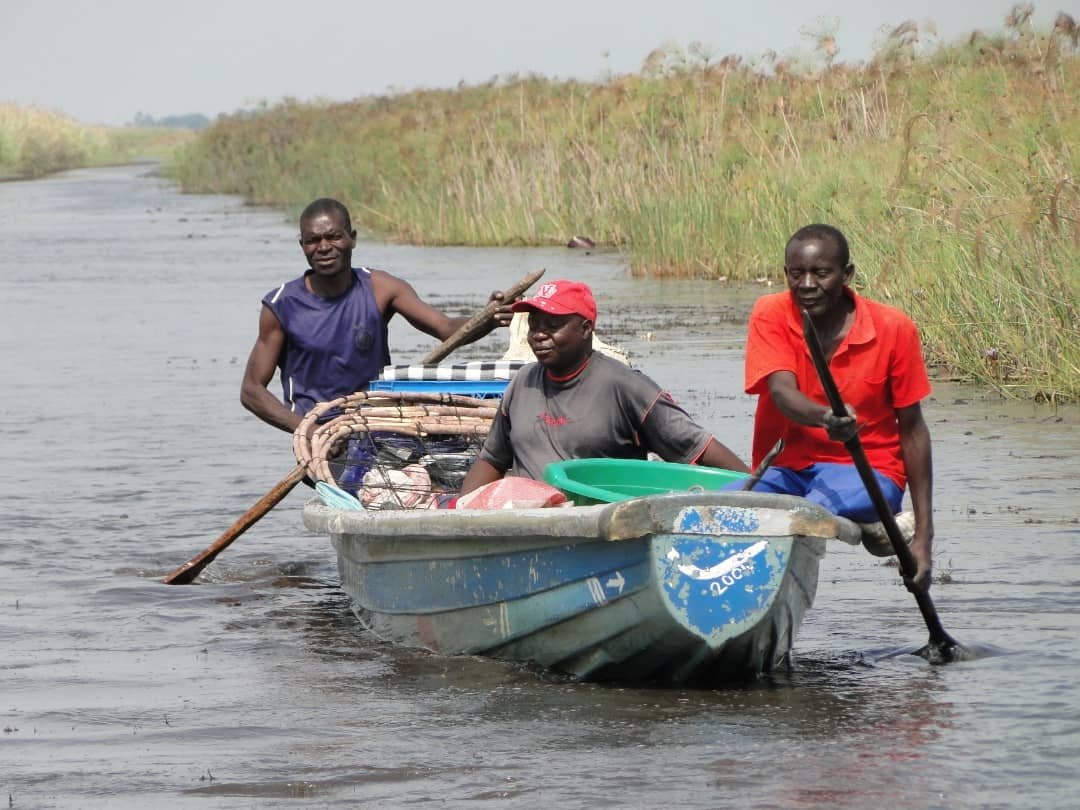 Africa moving This is an image with the theme "Africa on the Move or Transport" from: Zambia